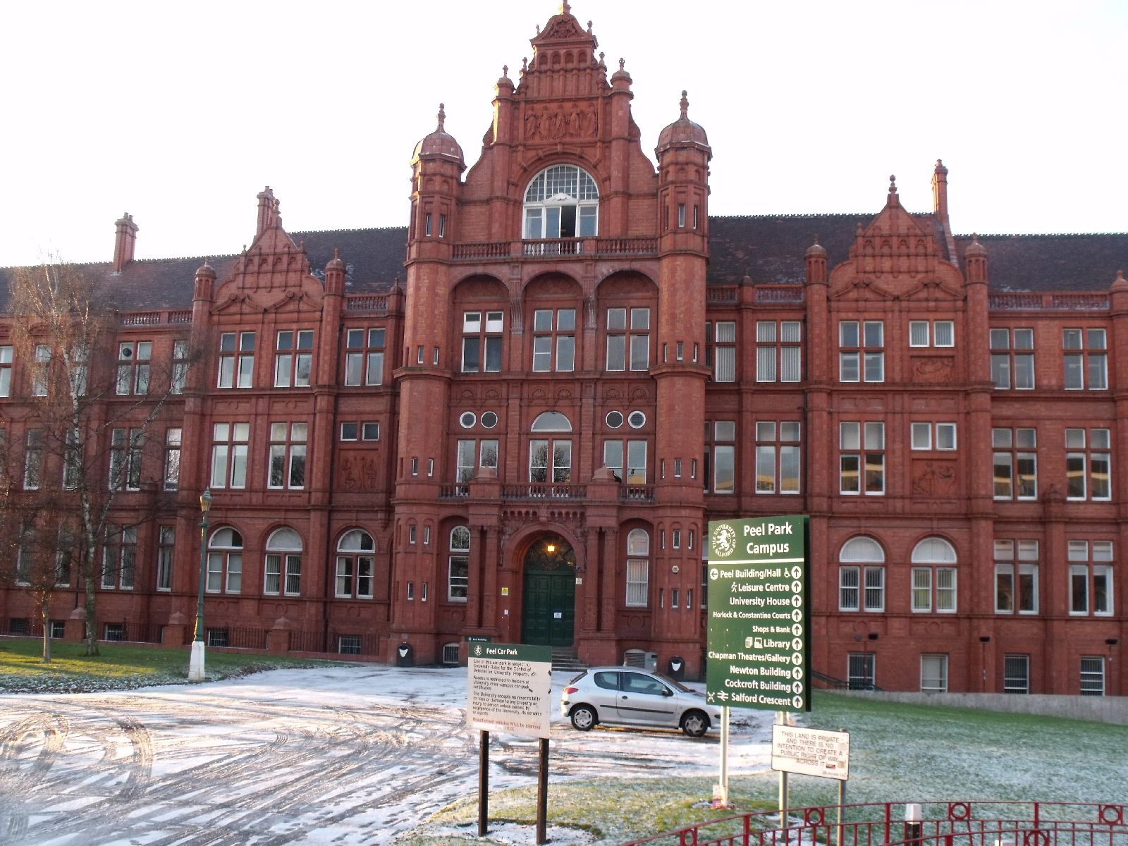 Salford University Peel Building